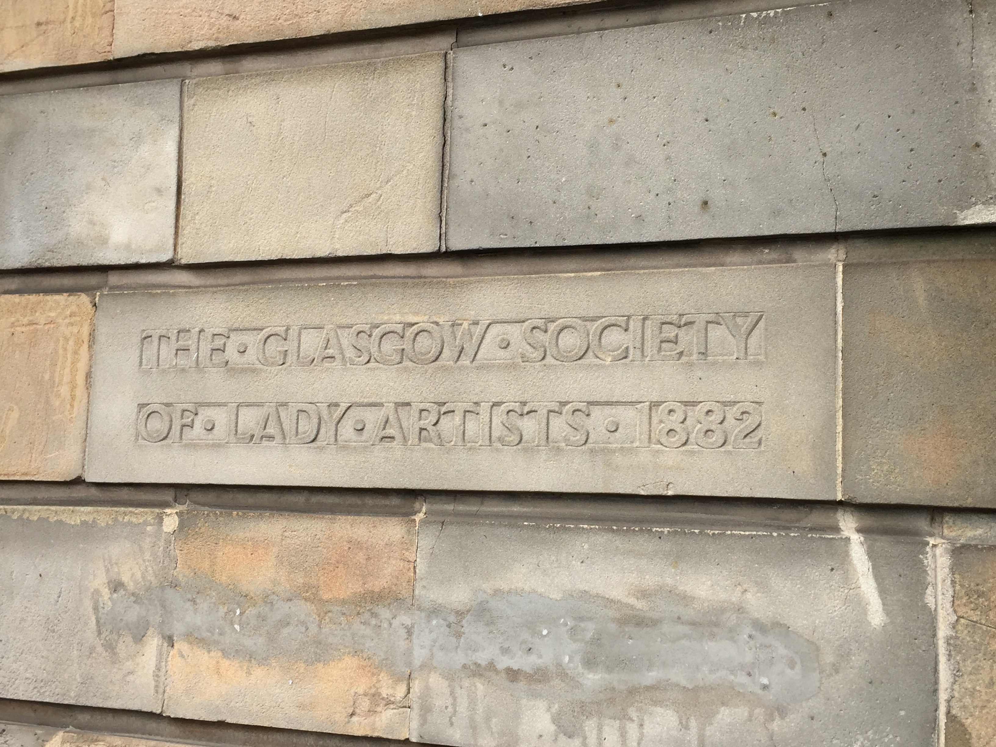 Glasgow Society of Lady Artists’ Club, external wall sign. 5 Blythswood Square, Glasgow, Scotland.